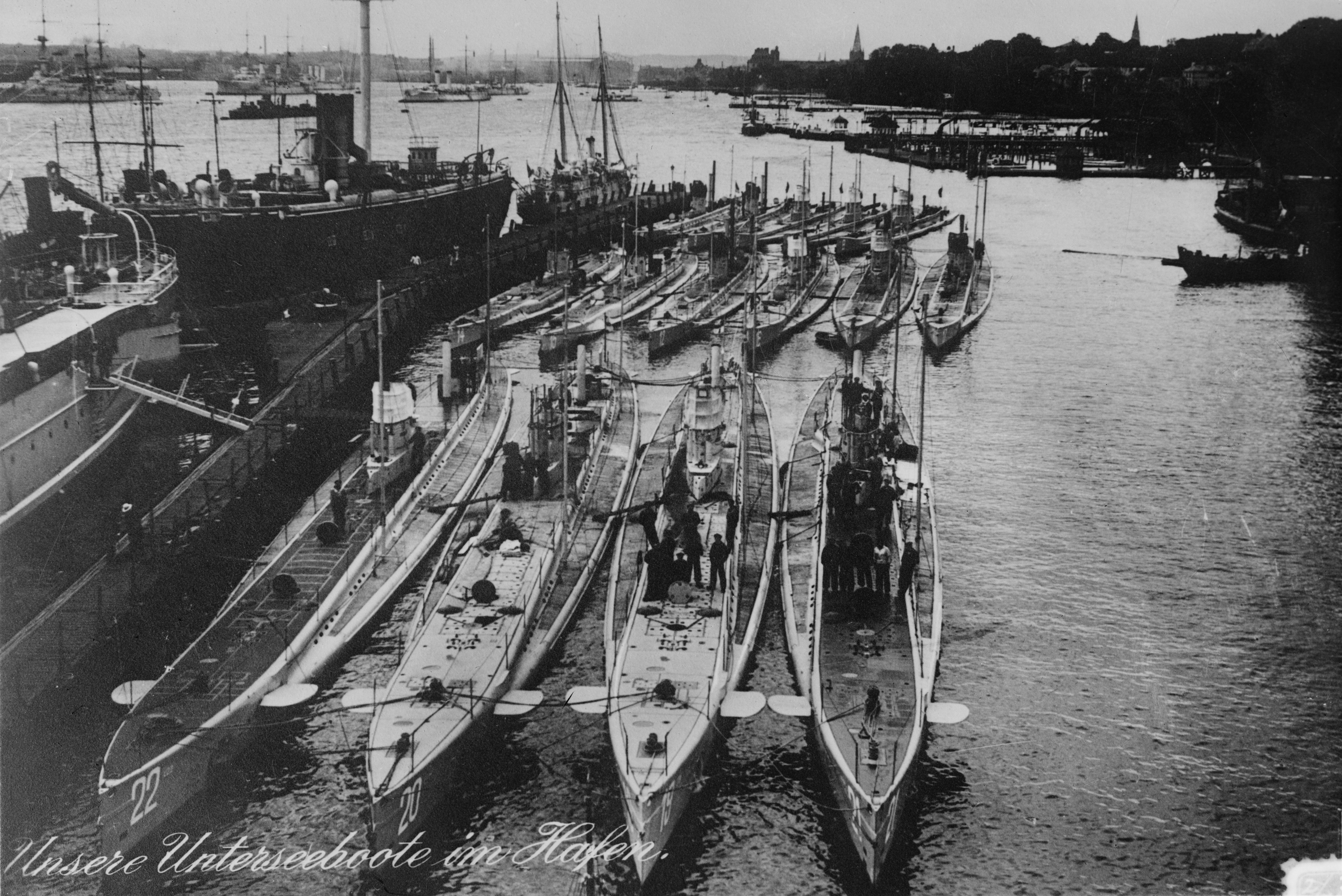 German submarines at Kiel, Schleswig-Holstein, on 17 February 1914. Identifiable are: U 22, U 20, U 19, and U 21 (first row, left-right); U 14, U 15, U 12, U 16, U 18, U-17, and U 13 (second row, left-right); U-11, U-9, U-6, U-7, U-8, and U-5 (third row, left-right). As U 22 (the newest boat) was commissioned in November 1913, the photo was taken in 1914. Caption says: "Our submarine boats in the harbour" (in German).